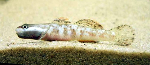 A male Rhinogobius duospilus; aquarium specimen, approximately 4 cm long.